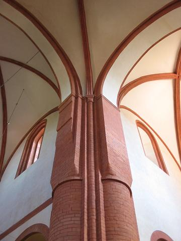 Gothic rib vault springing from column of St. Marien church — at the Kloster Lehnin (Lehnin abbey). A German Brick Gothic era monastary in Landkreis Potsdam-Mittelmark, Brandenburg.